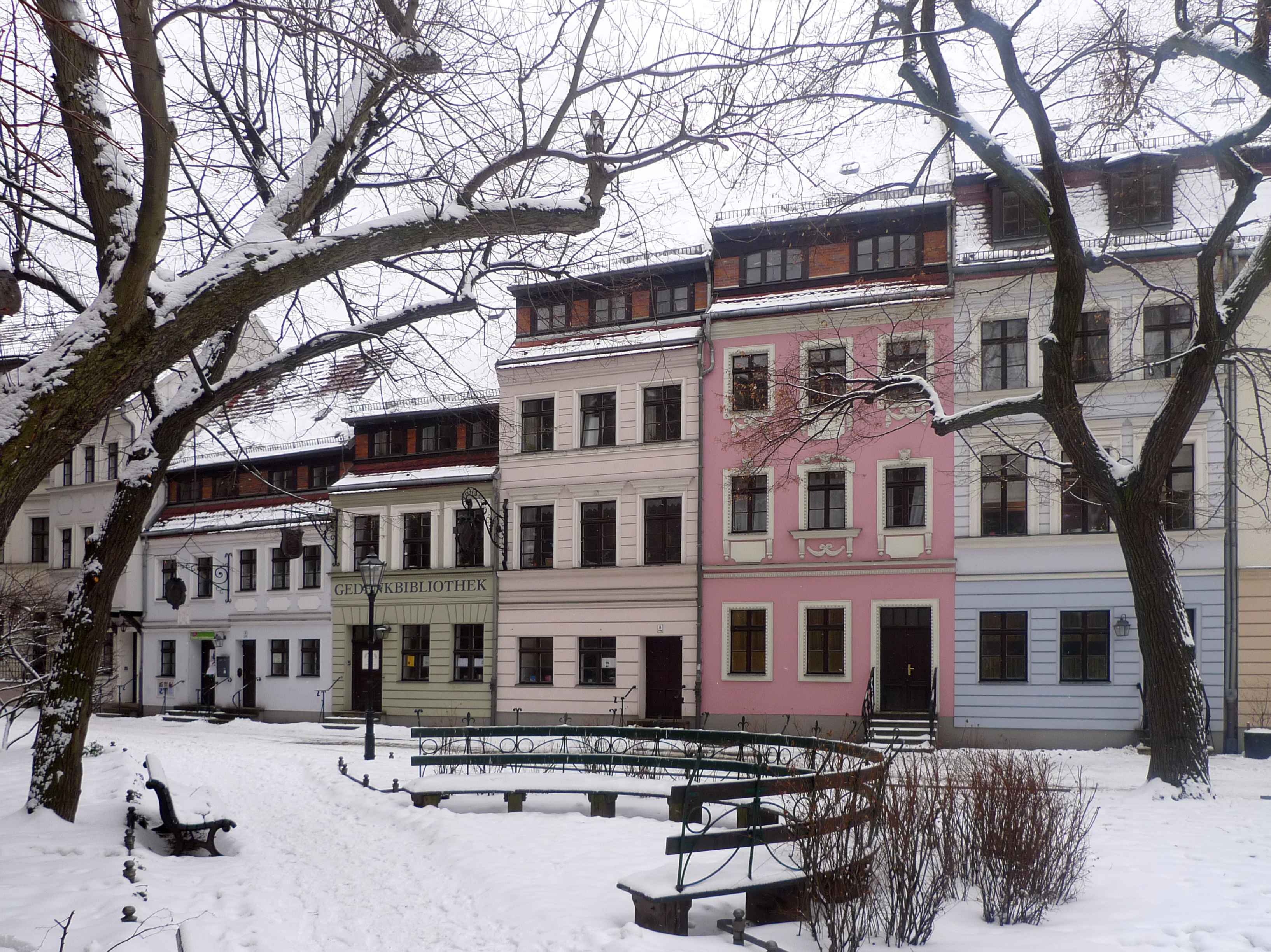 Townhouses at Nikolaikirchplatz in Berlin Mitte